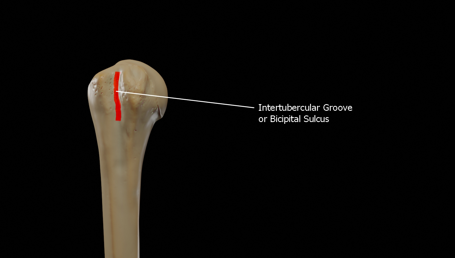 The intertubercular groove or also known as the bicipital sulcus is a deep groove that begins between the two tubercles and extends longitudinally down the proximal shaft of the humerus.